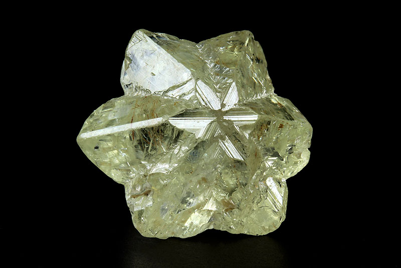 Chrysoberyl Locality: Governador Valadares, Doce valley, Minas Gerais, Brazil Original description: 7.33 mm Chrysoberyl specimen with " star " form. Collection D.Preite photo M.Chinellato